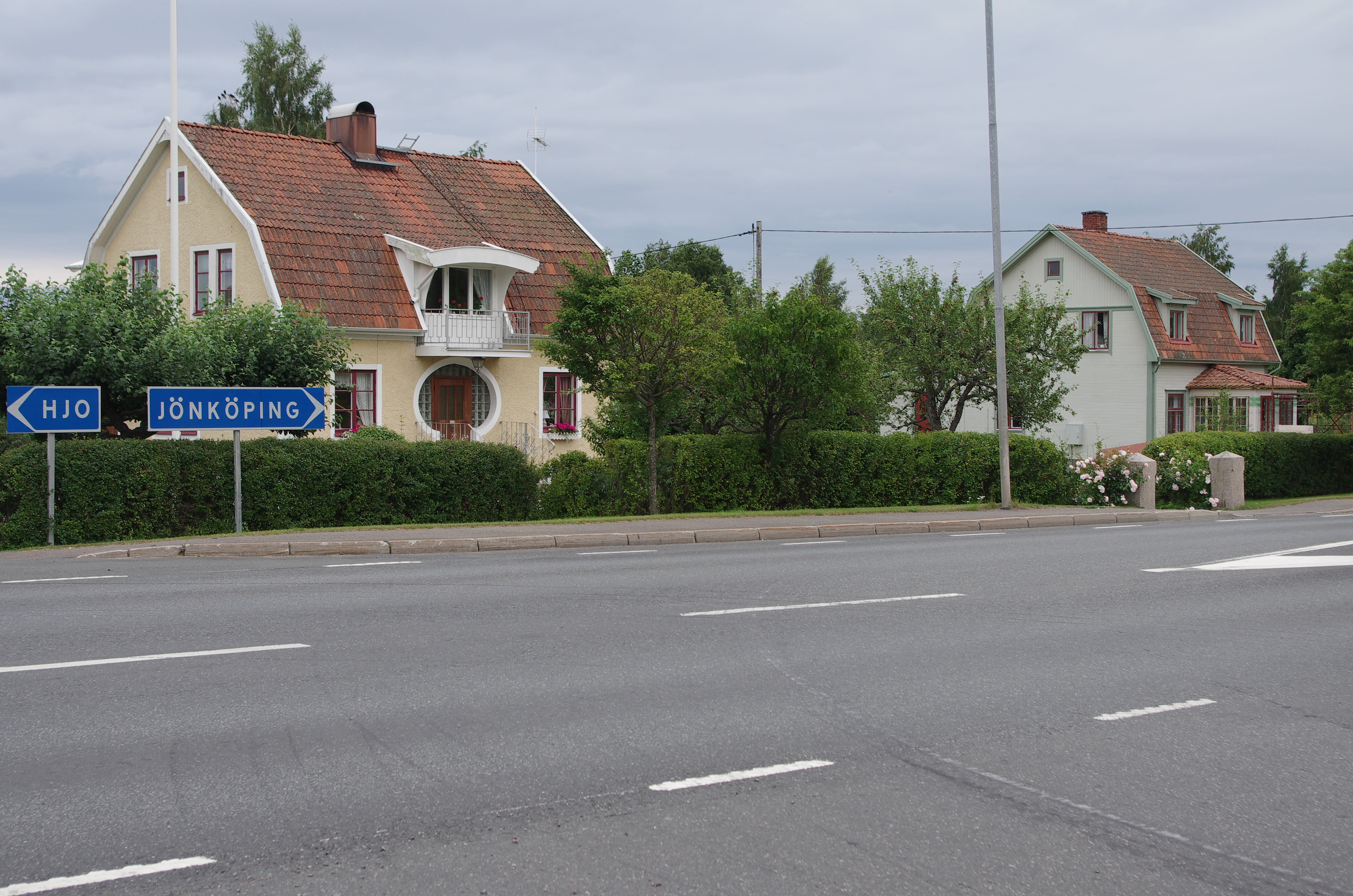 The village and parish Brandstorp in Västergötland, Sweden.